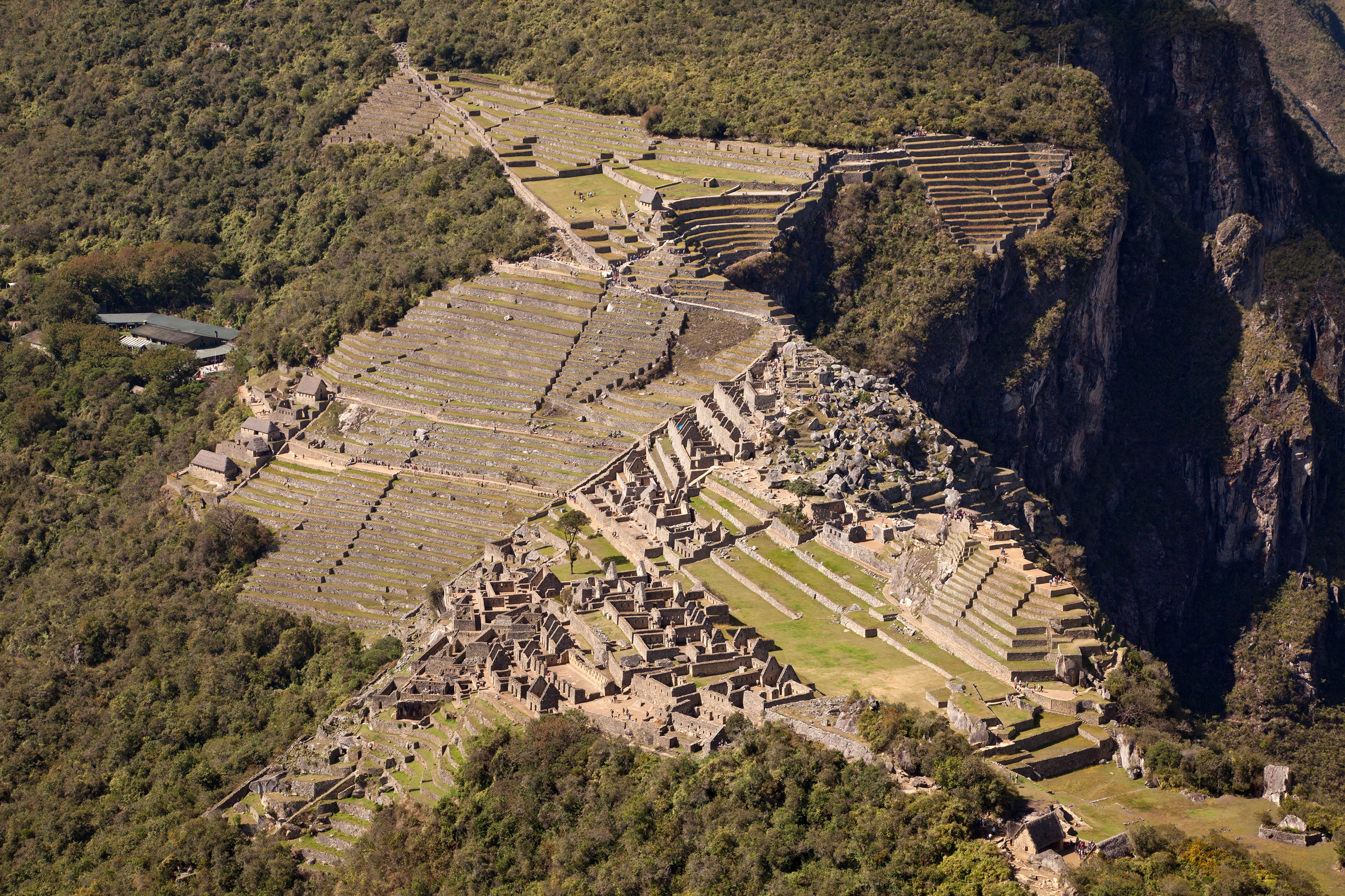 View onto Machu Picchu from Huayna Picchu